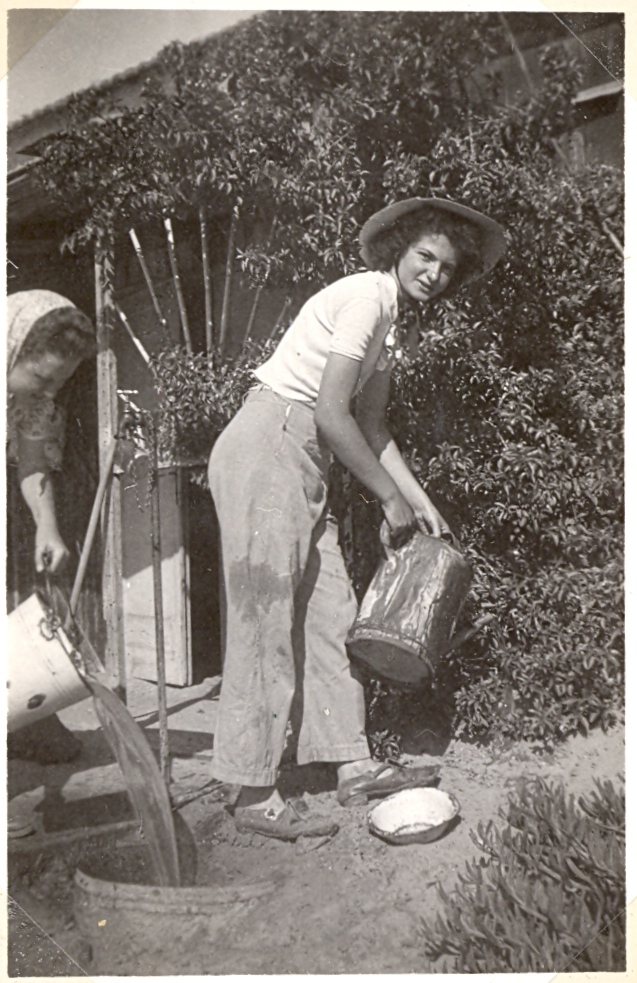 Settlements in Israel